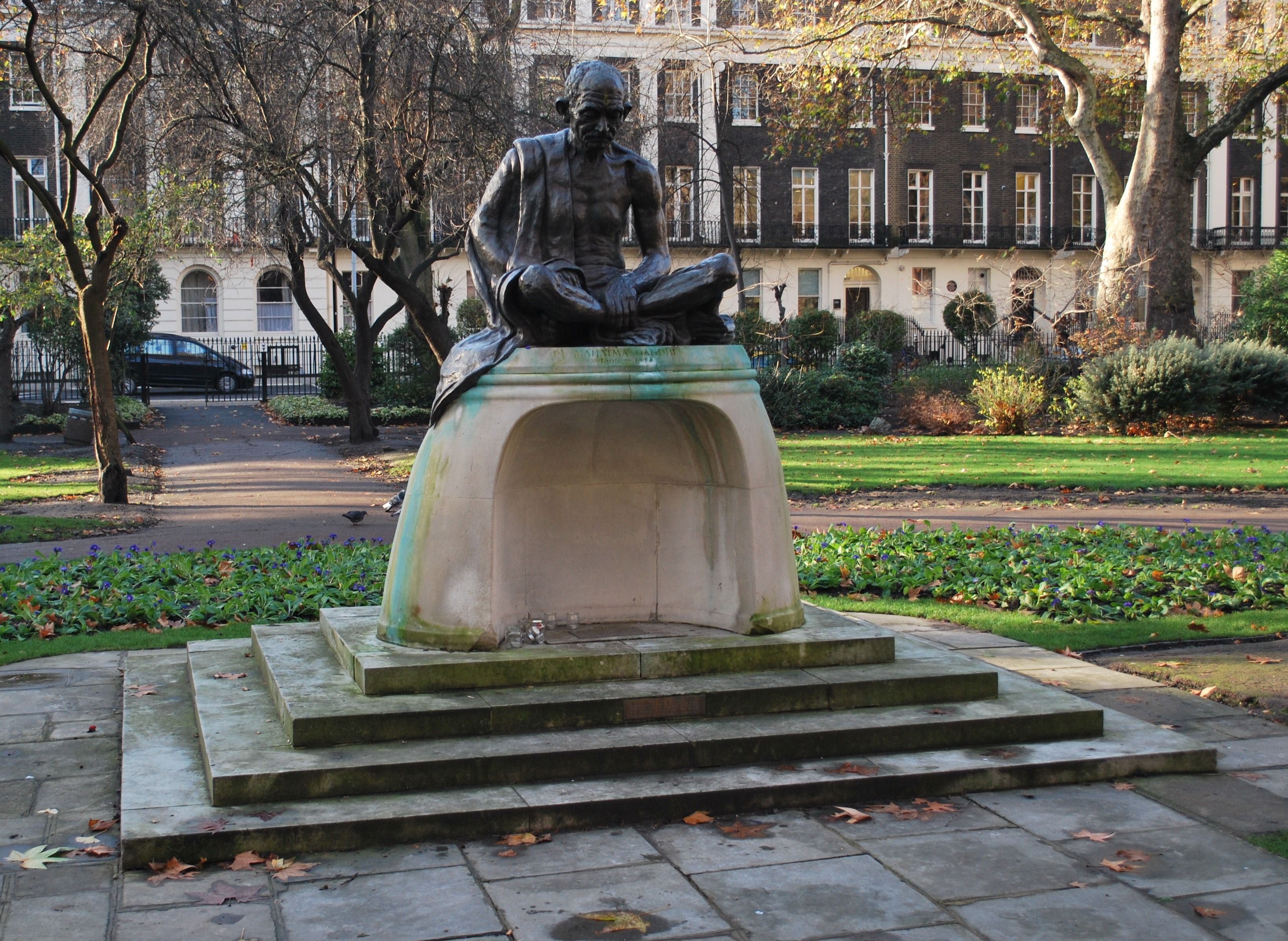 Monument of Mohandas (Mahatma) Gandhi, Tavistock Square, Bloomsbury, London